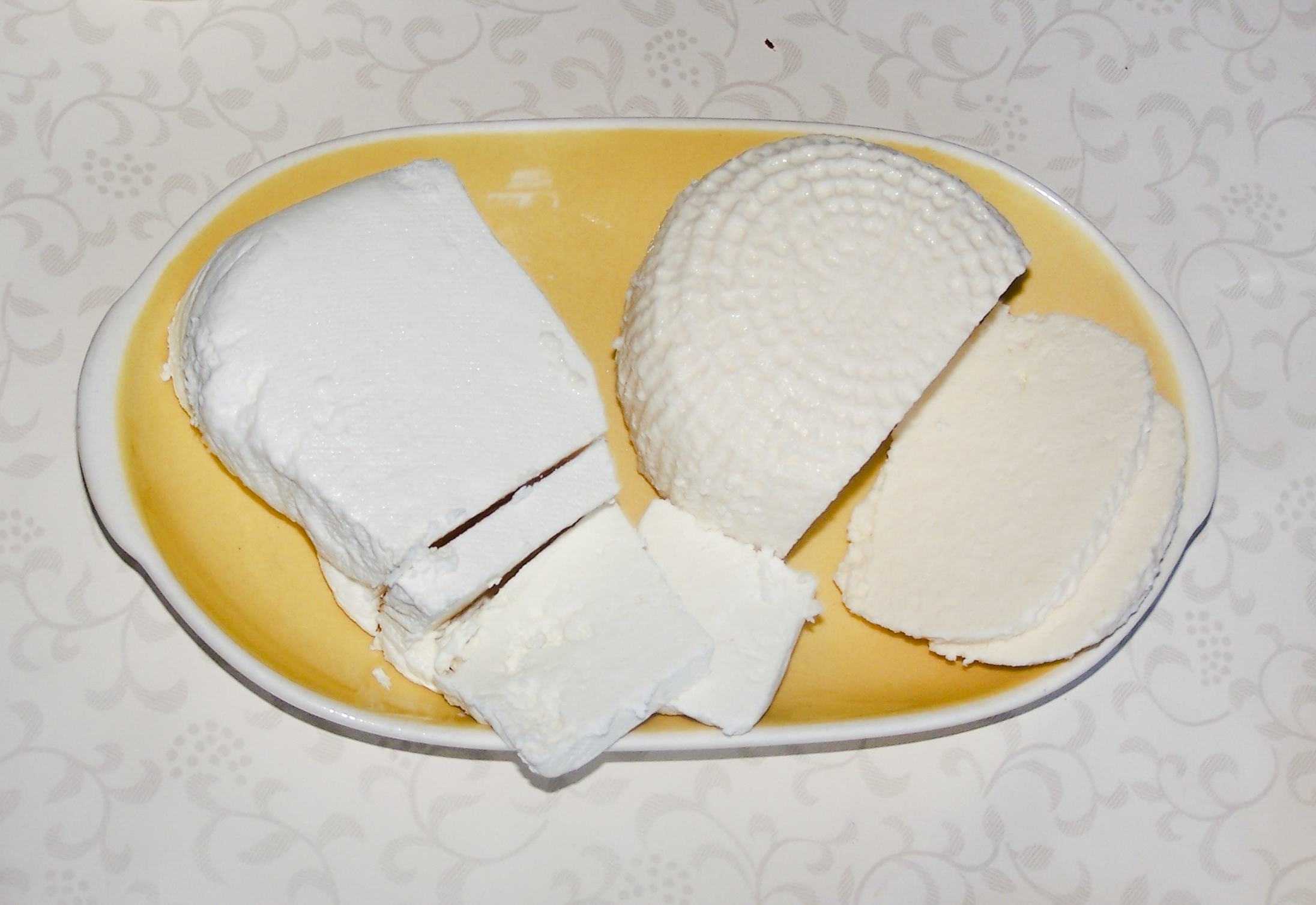 Photo by Piotrus.